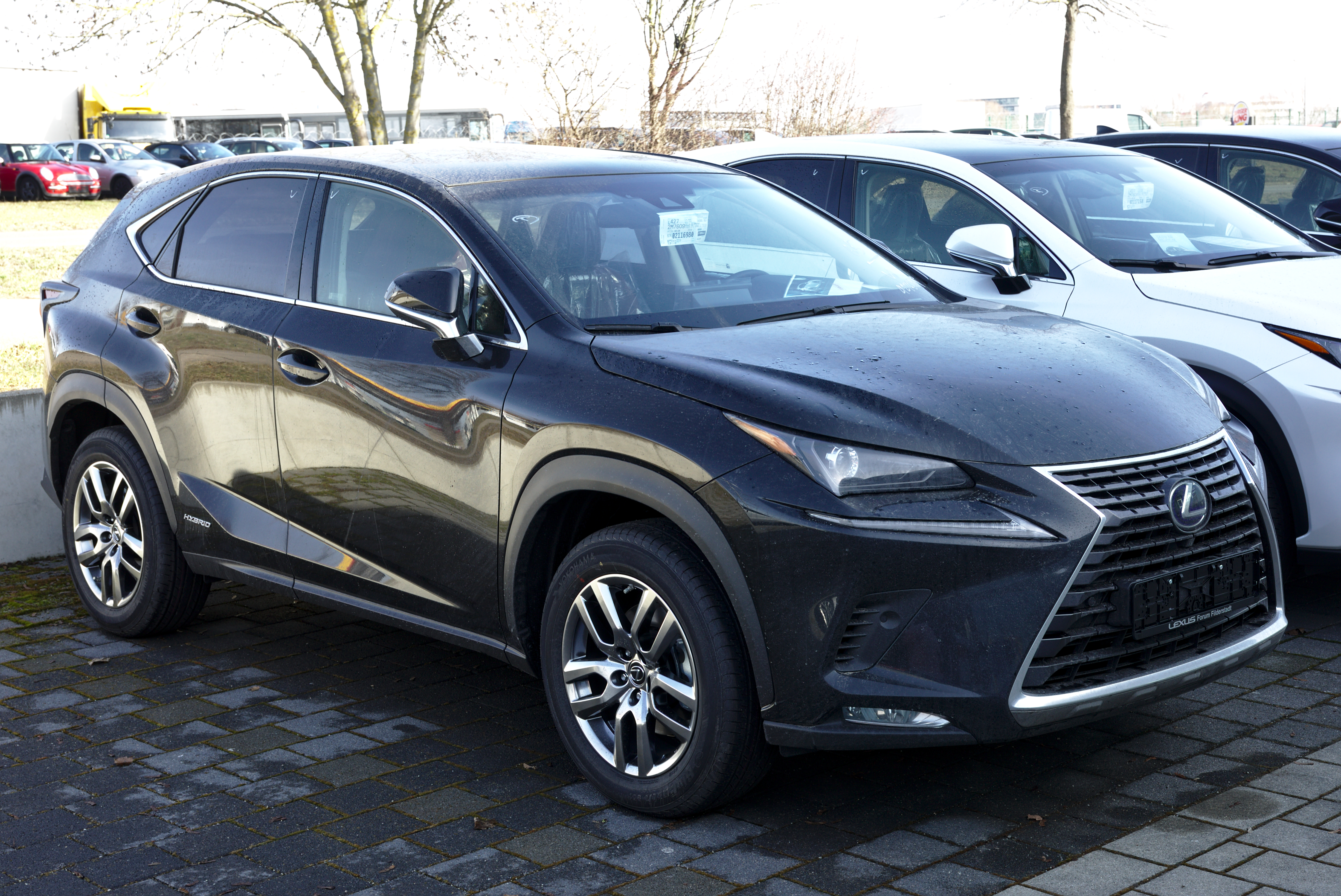 Lexus NX in Filderstadt